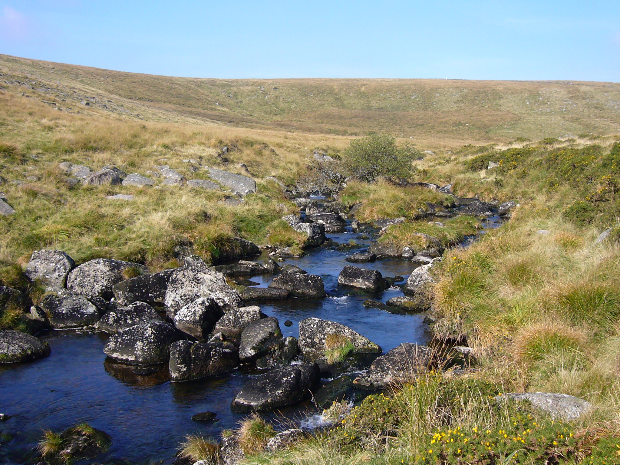 Upper reaches of the West Dart river on northern Dartmoor.